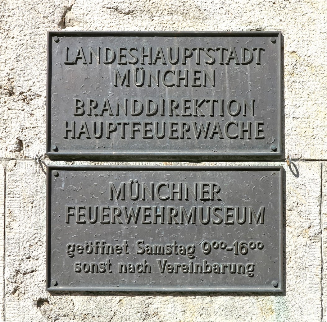 Museum of Firebrigade in Munich